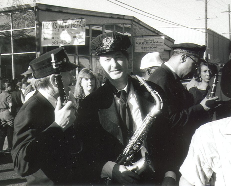 Musicians Chris Burke, Sammy Rimmington, and Dr. Michael White at the funeral procession for Danny Barker, New Orleans.